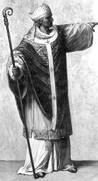 Notger, painted by Louis Gallait (1810-1887) Walon: Notger si portrait, pondou di Louis Gallait (1810-1887)